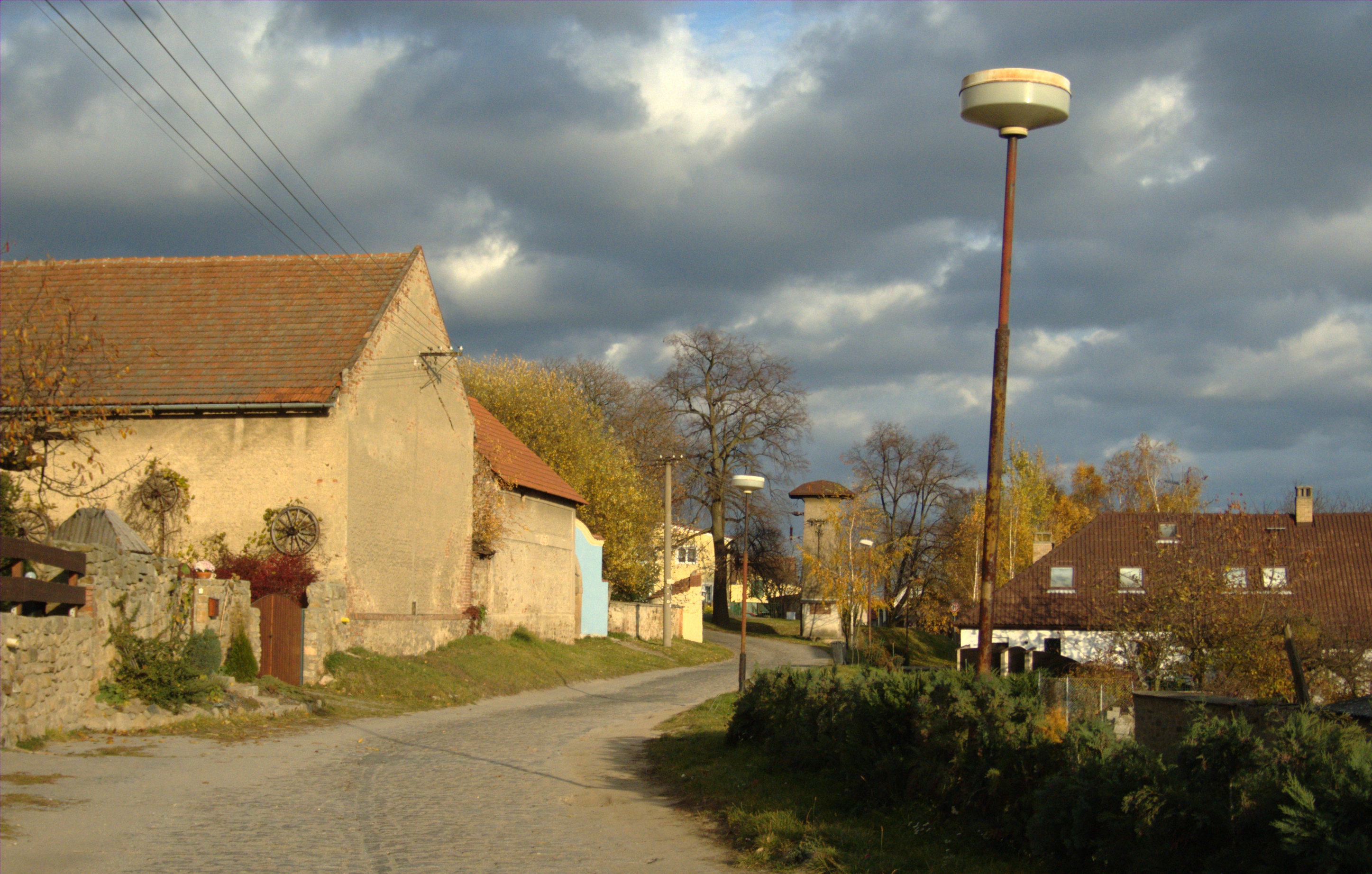 Village of Přehvozdí in Kolín District, CZ